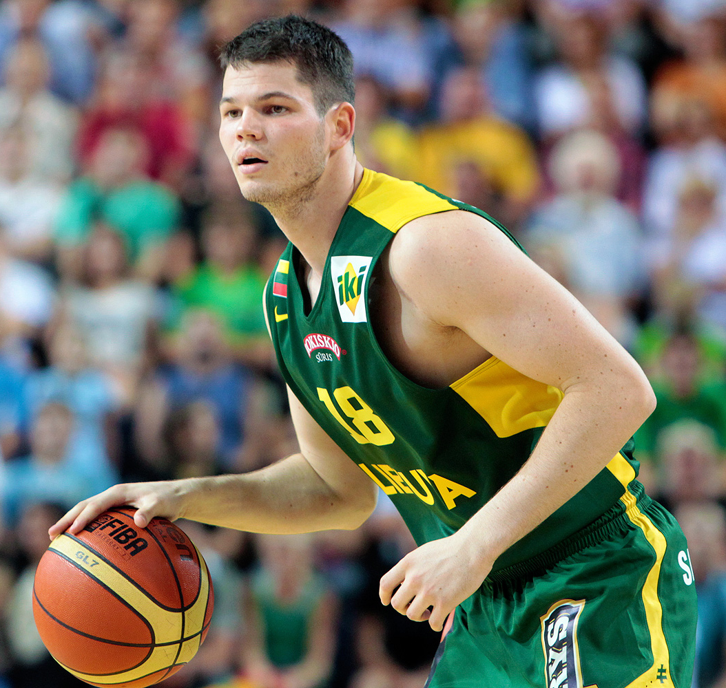 Lithuanian basketball player Vytenis Cizauskas